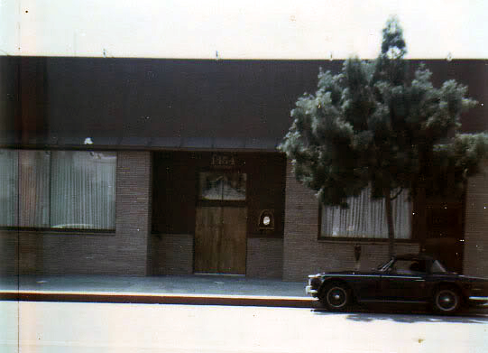 The front façade of Brother Studios.